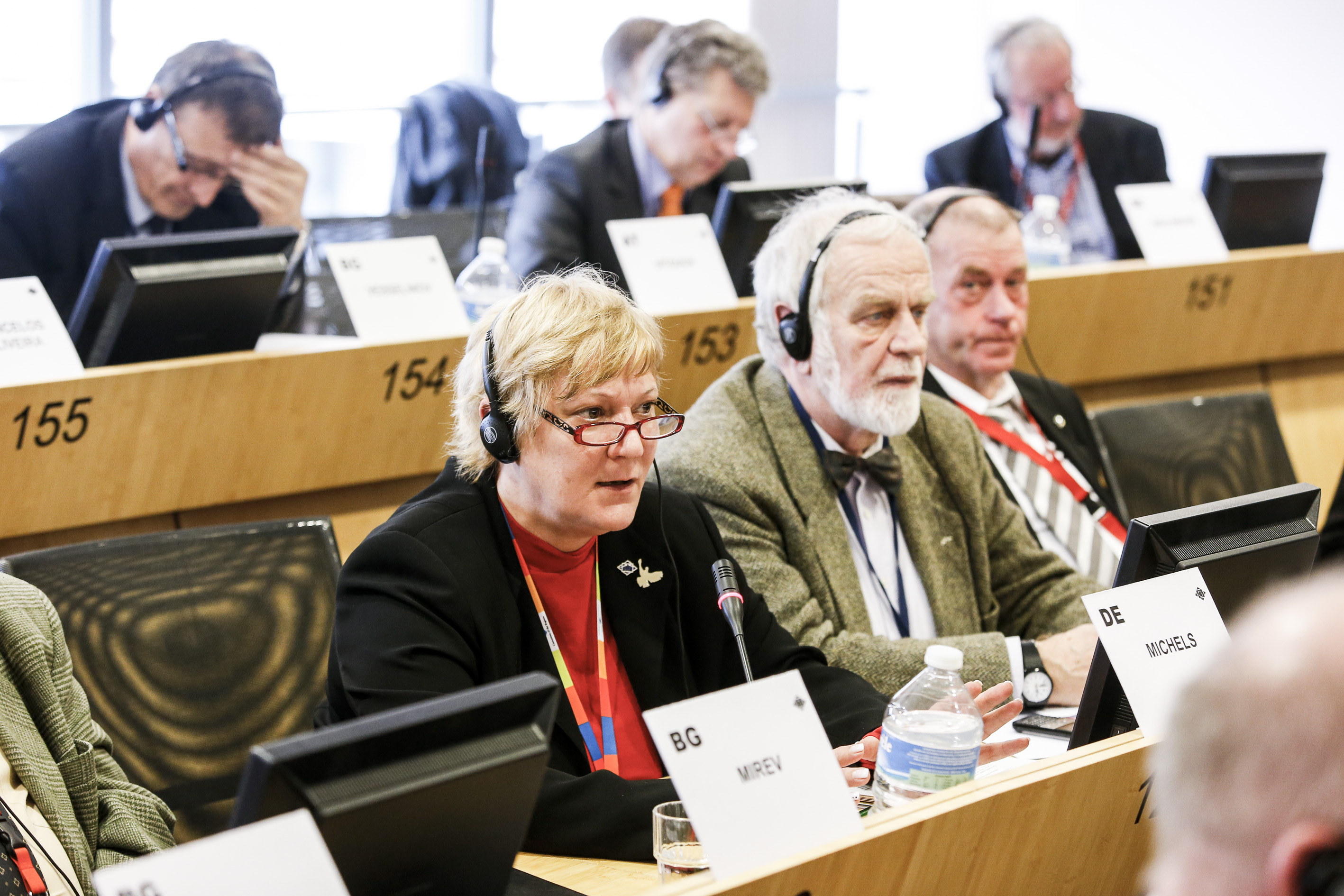 Martina Michels, Member of the Parliament of Berlin, Germany